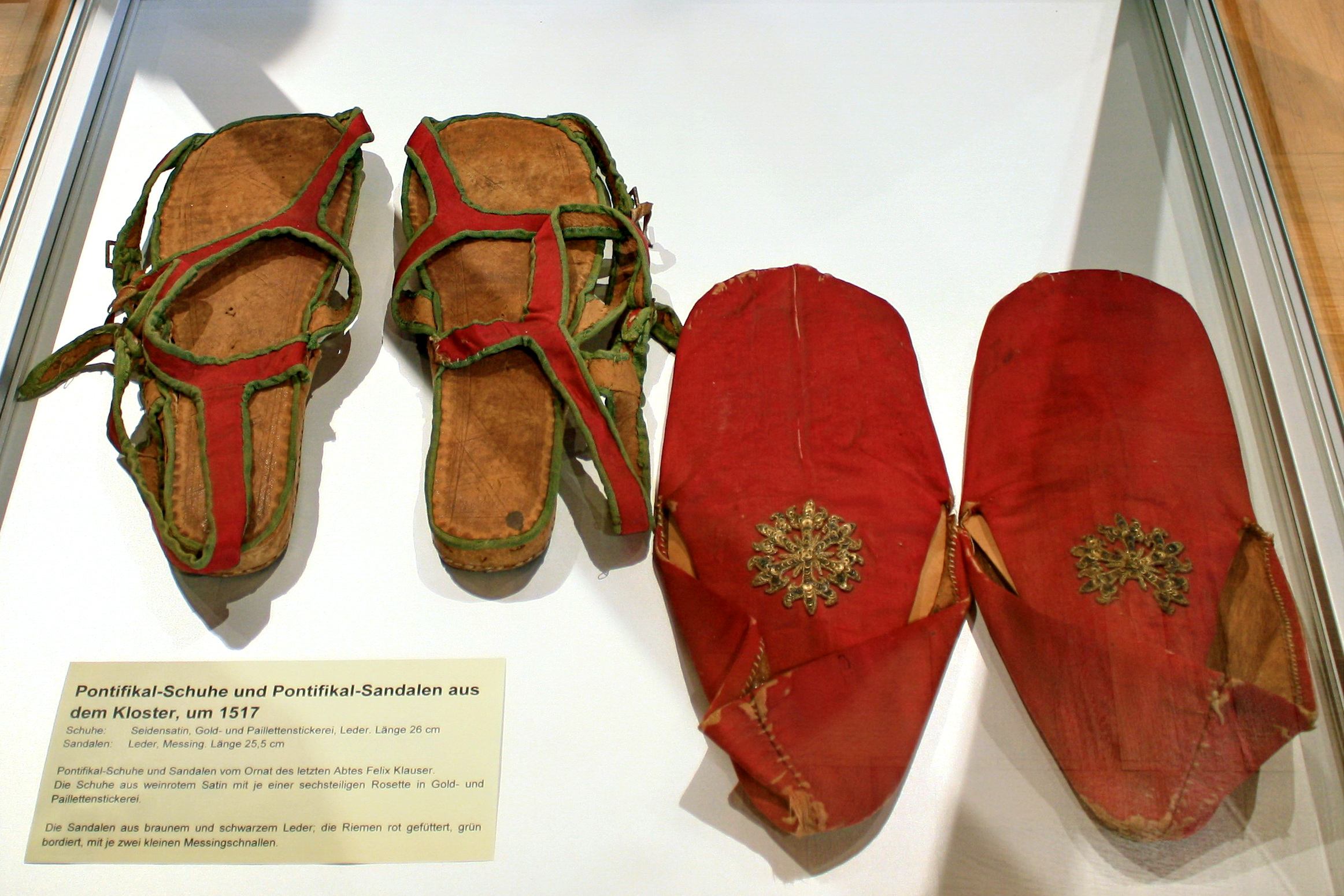 Rüti (ZH) : Treasury of the former Premonstratensian Abbey, Ortsmuseum (museum of local history) in the Amthaus Rüti (Bailiff's house).